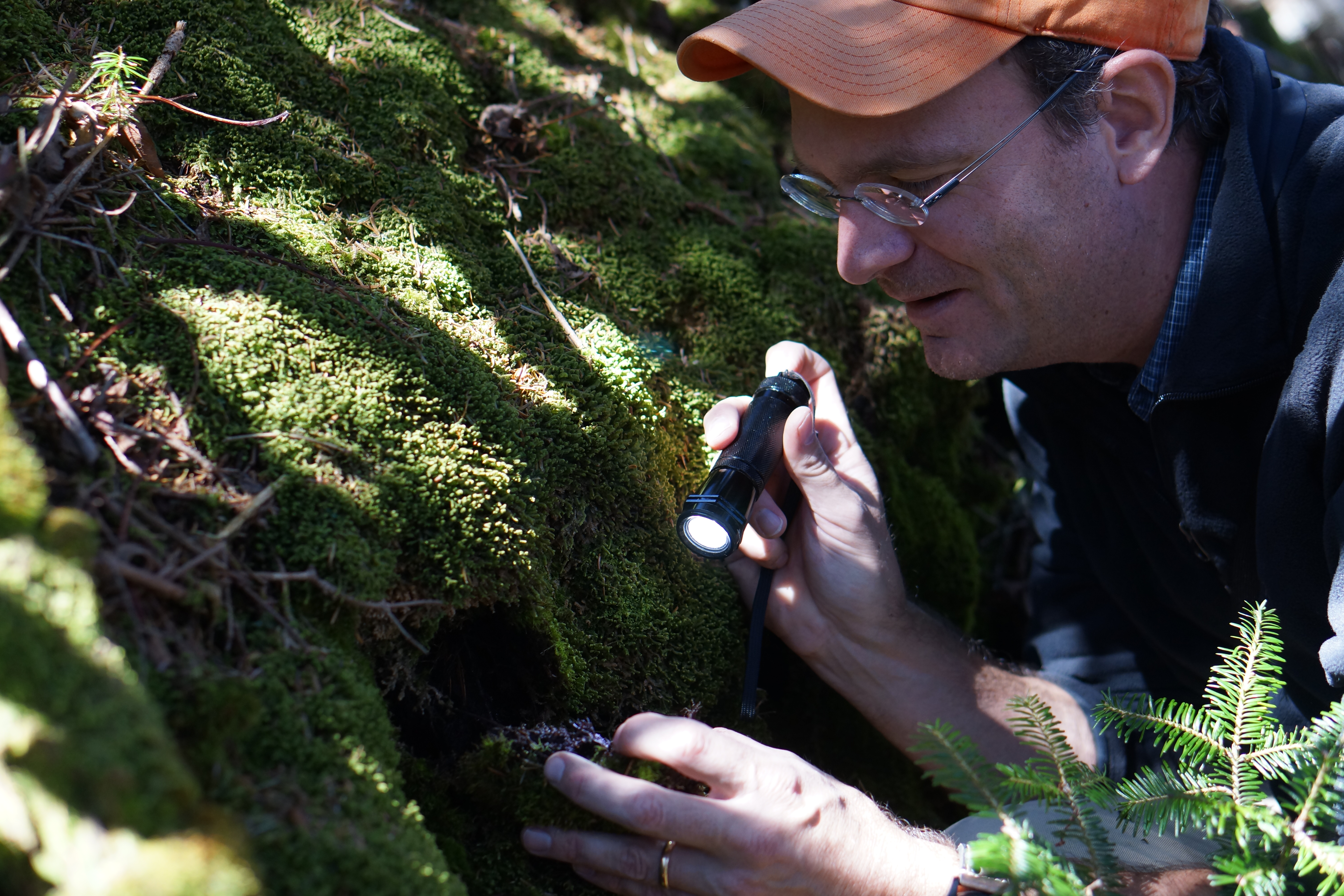 The spruce-fir moss spider is an endangered animal found only at the tops of the highest peaks in the eastern United States. This video follows a team of scientists as they search for the rare spider in order to carry specimens back to their lab for genetic analysis which will provide information to help guide future conservation efforts. The team included Dr. Marshal Hedin of San Diego State University; Dr. Fred Coyle, retired from Western Carolina University; Dr. Jason Bond of Auburn University; Service biologist Sue Cameron; and Service intern David Caldwell. Credit: Gary Peeples/USFWS